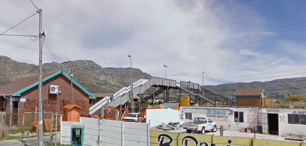 Represents the Steenberg Railway station